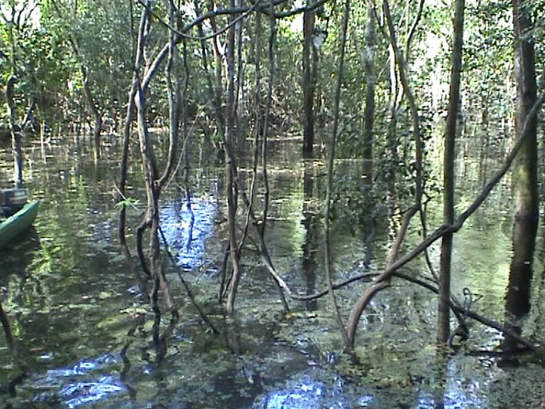 Rio Negro - Amazon